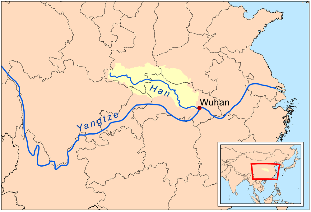 This is a map of the Han River drainage basin.